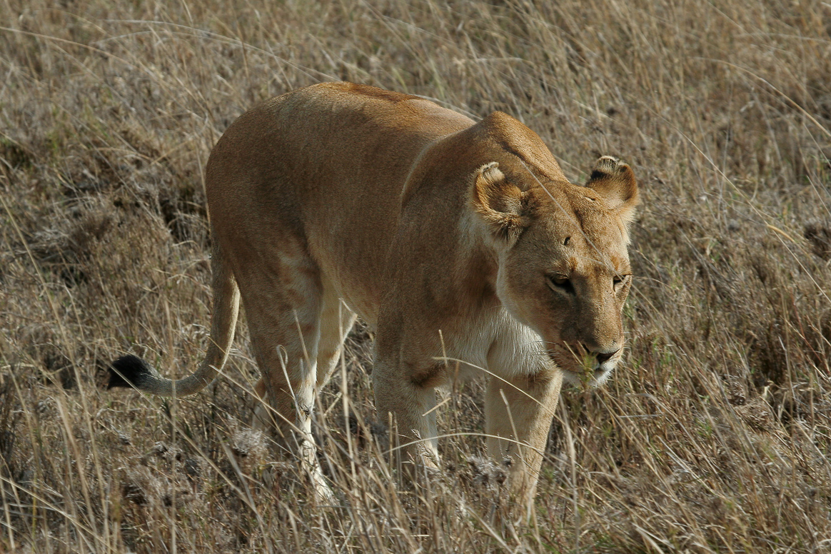 Taken by Schuyler Shepherd (Unununium272). Canon 350D, 100-400mm f/4.5-5.6 L IS